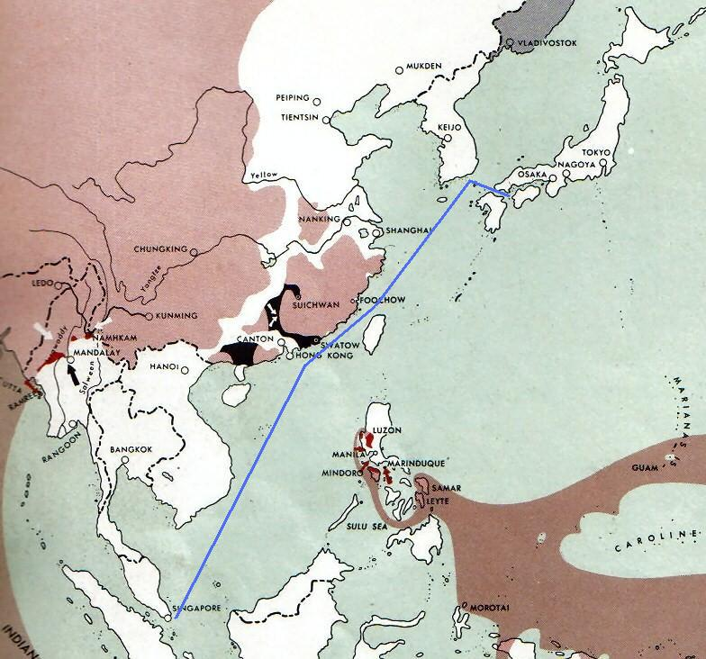 The route of the Imperial Japanese Navy Completion Force from Singapore to Japan between 10 and 20 February 1945